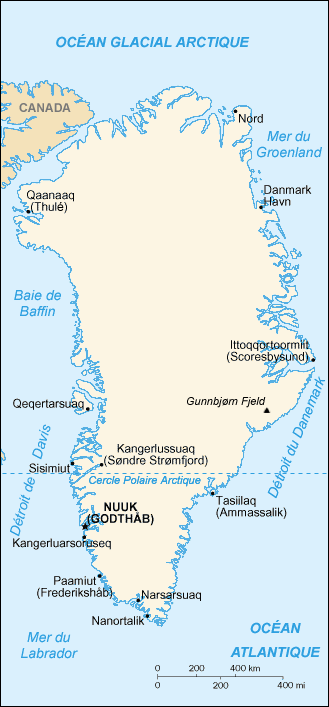 Map in French of Greenland